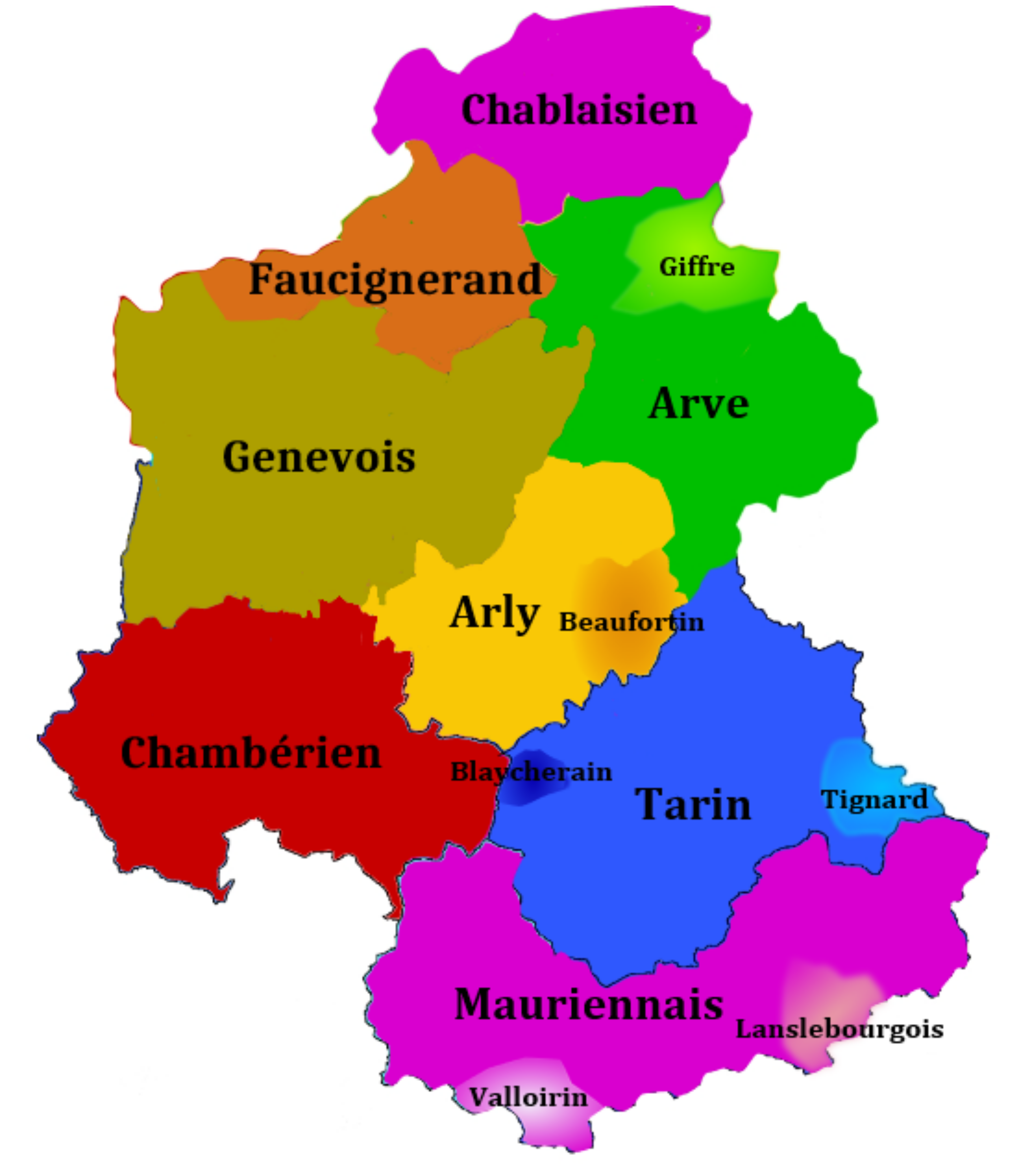 This is a map which represent the different types of savoyard's dialects.